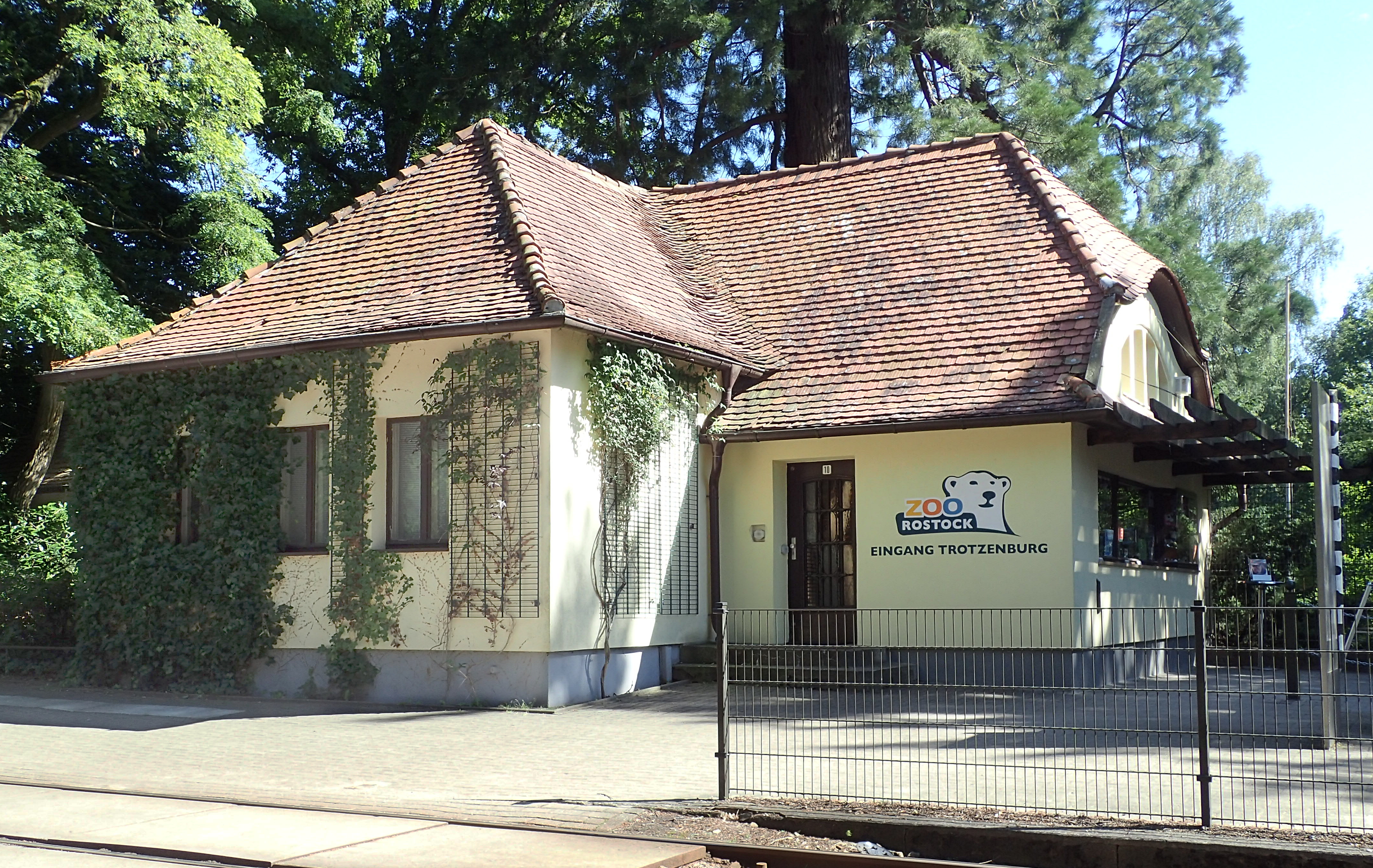 Entrance-building of Zoo Rostock